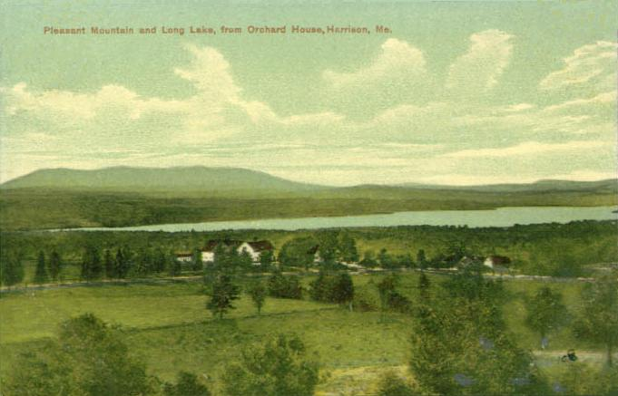 Pleasant Mountain and Long Lake, from Orchard House, Harrison, ME; from a c. 1910 postcard.